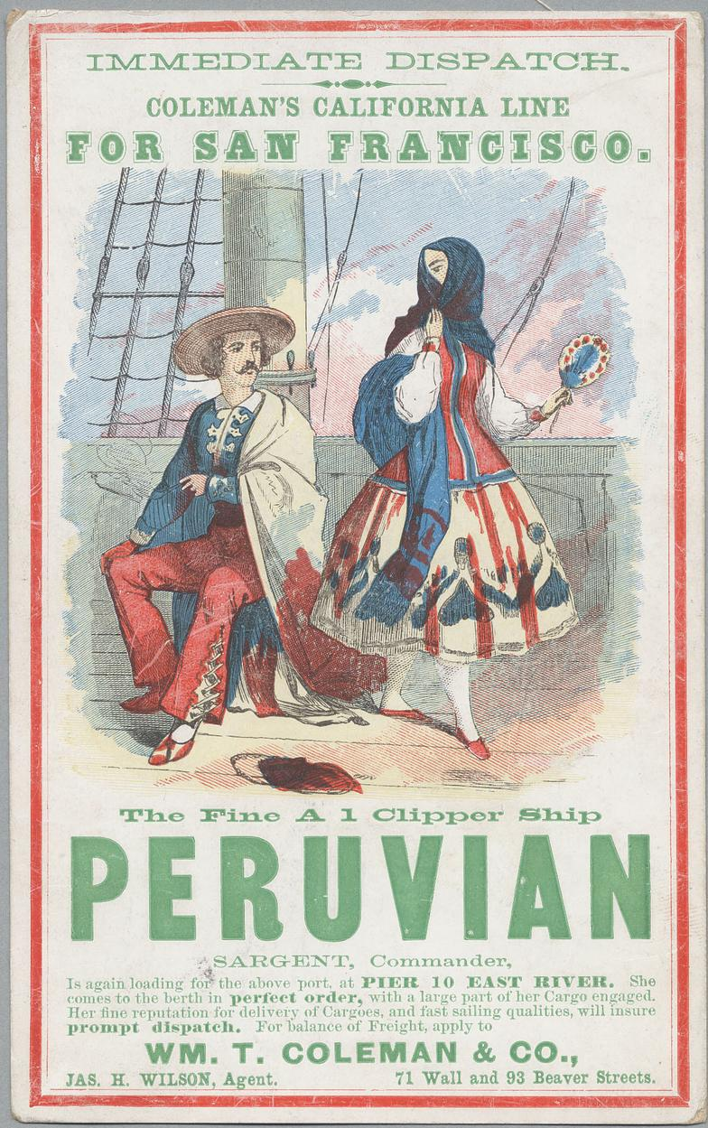 PERUVIAN Clipper ship sailing card Sargent, Commander